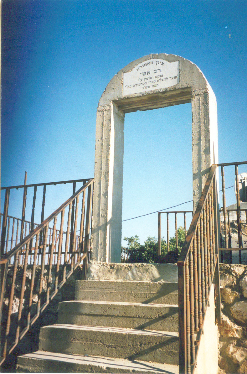 The tomb of Rabbi Ashi on Har Shinaan in the Galil mountains in Israel